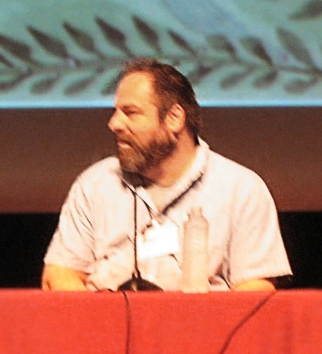 This file has been extracted from another file: "Lines on Paper" panel.jpg "Lines on Paper" panel